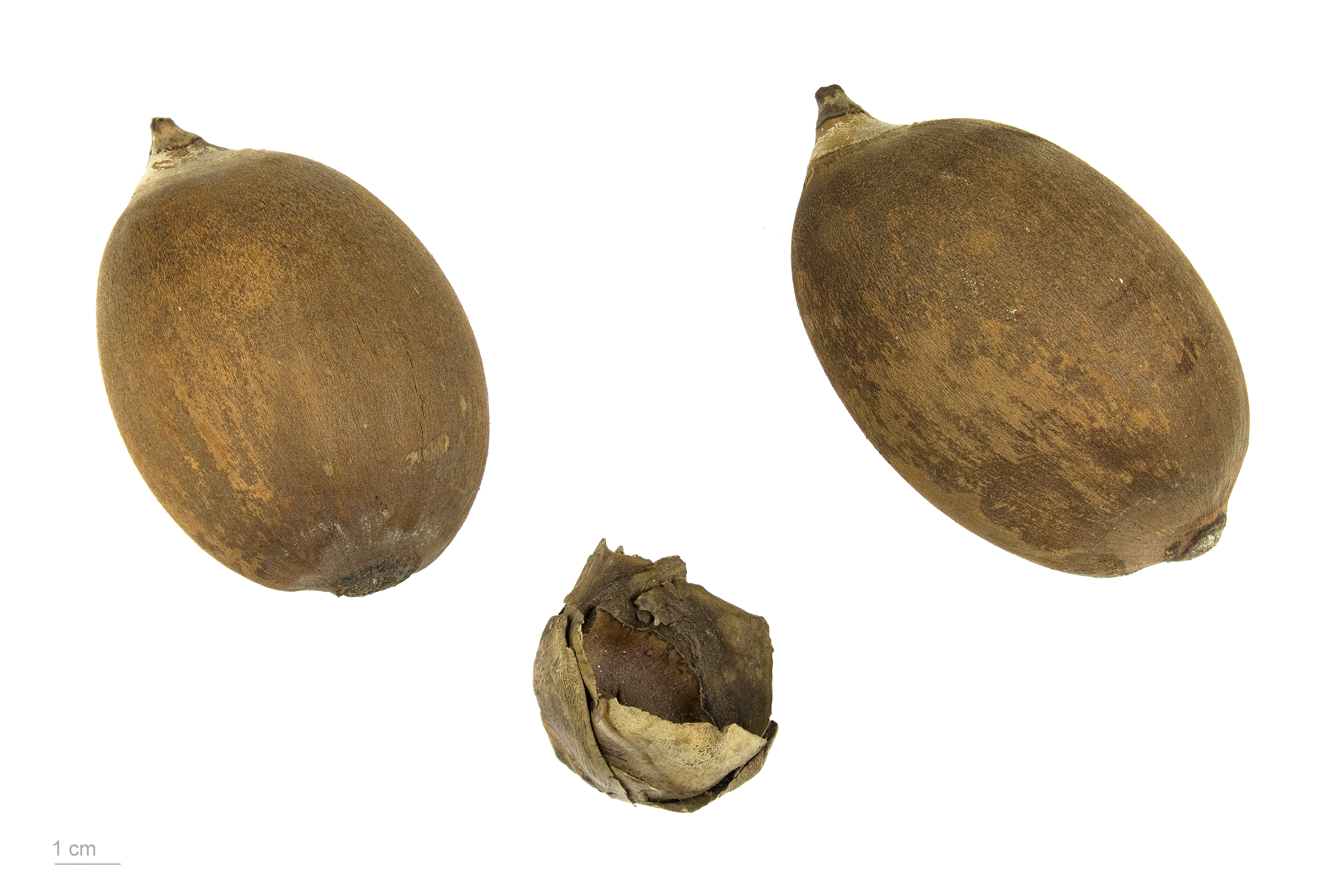 Attalea sp. , fruits and seeds